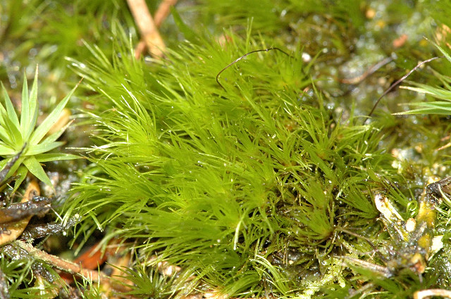 Picture taken in Commanster, Belgian High Ardennes . Species: Bartramia pomiformis